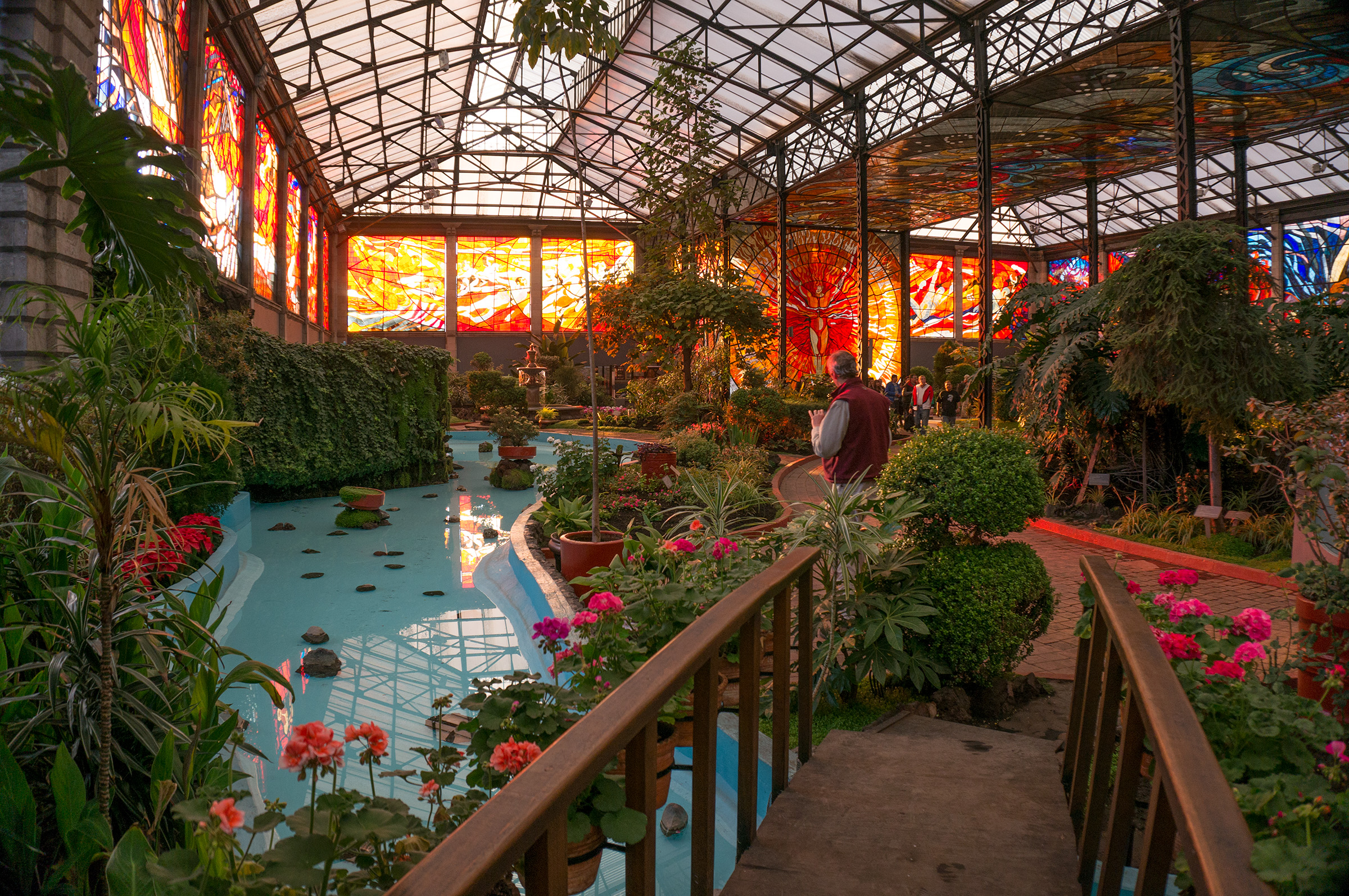 Leopoldo Flores and sixty artisans worked from 1978 to 1980 to create more than 3,200 square meters of stained glass art that surrounds the walls and ceilings at the Cosmovitral.